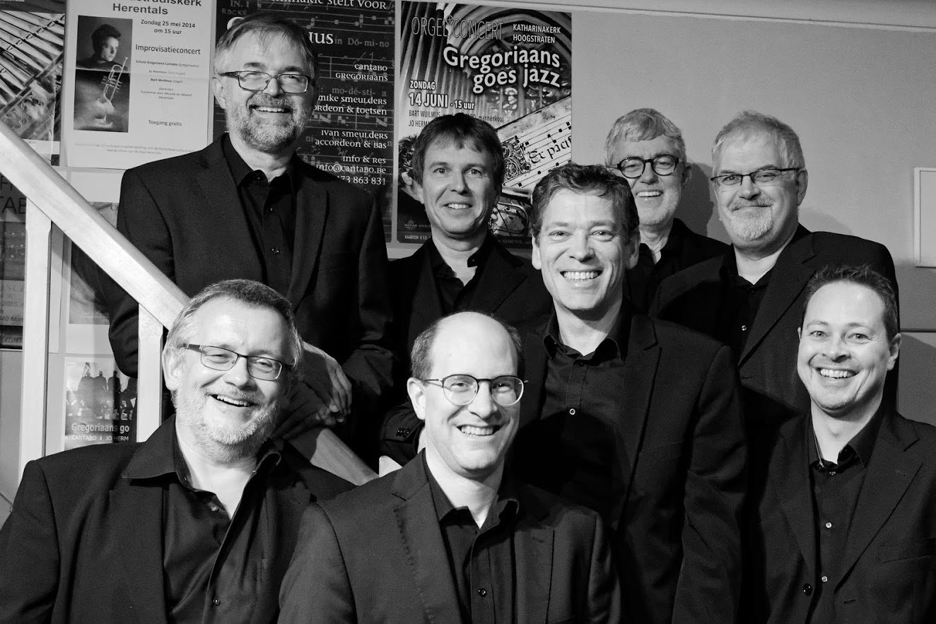 Gregorian Chant Choir Cantabo in 2018